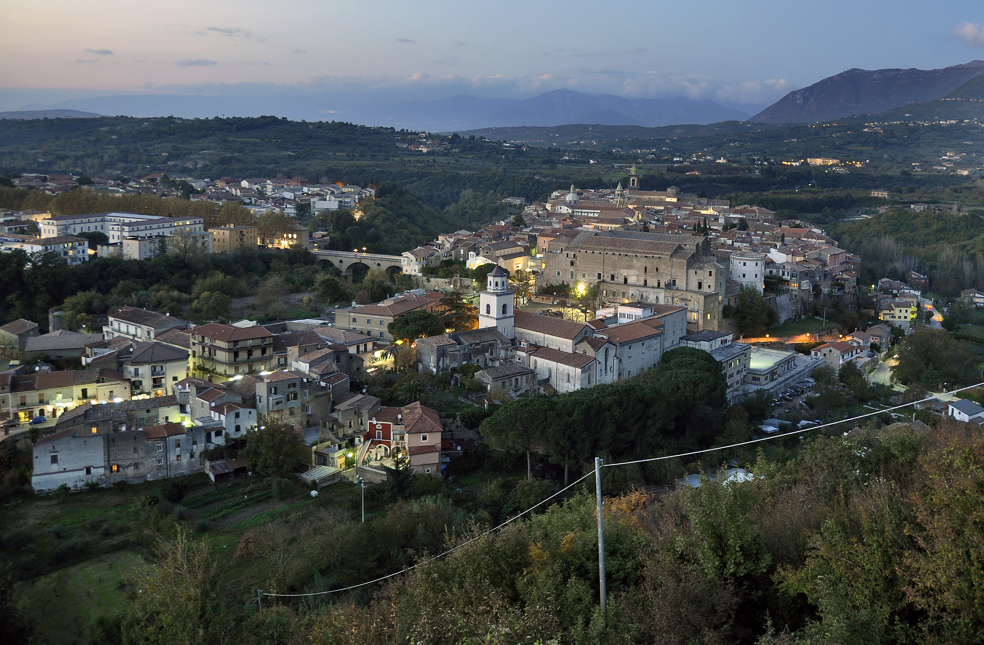 A view of the comune of Sant'Agata de' Goti